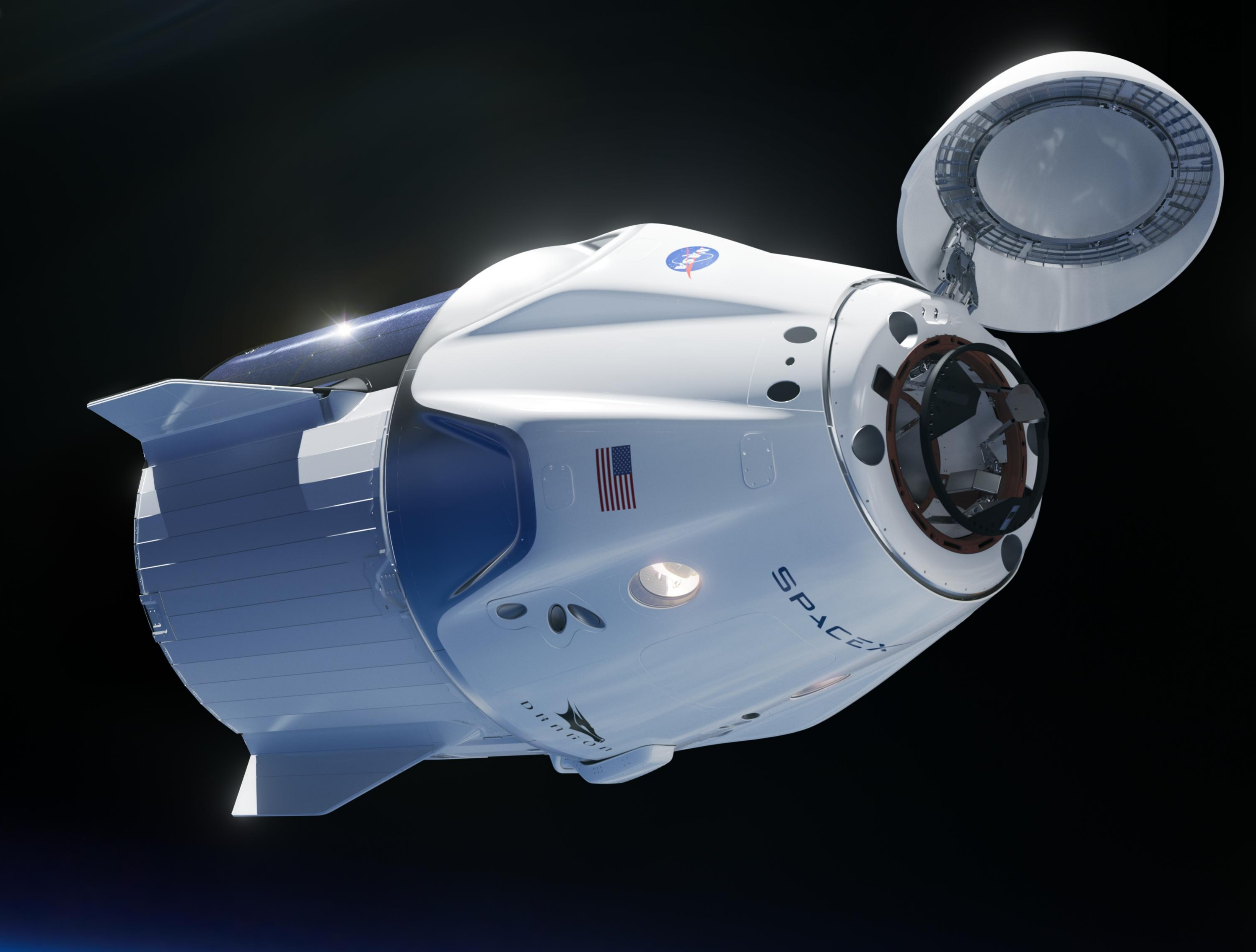 In this illustration, a SpaceX Crew Dragon spacecraft approaches the International Space Station for docking. NASA is partnering with Boeing and SpaceX to build a new generation of human-rated spacecraft capable of taking astronauts to the station and expanding research opportunities in orbit. SpaceX's upcoming Demo-1 flight test is part of NASA’s Commercial Crew Transportation Capability contract with the goal of returning human spaceflight launch capabilities to the United States.